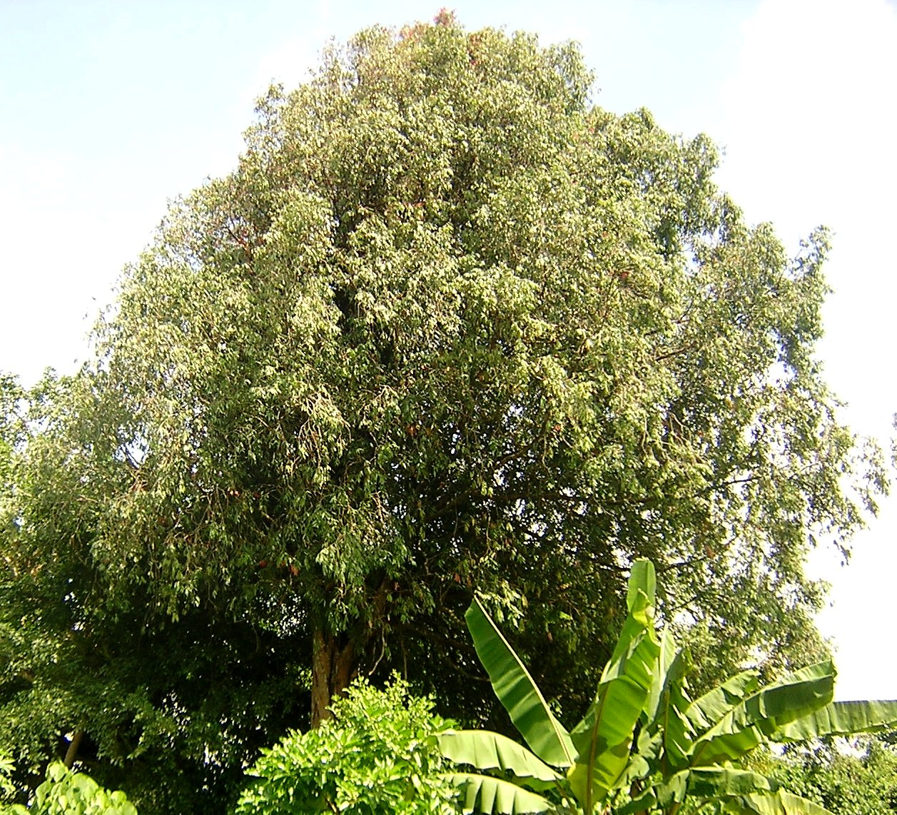 Image of Ironwood (Mesua ferrea), National tree of Sri Lanka and locally known as 'Na' in Sinhalese. Photo taken in Thelwatta (Hikkaduwa), behind a buddhist temple, in South-East Sri Lanka. Banana tree leaves can be seen in the foreground